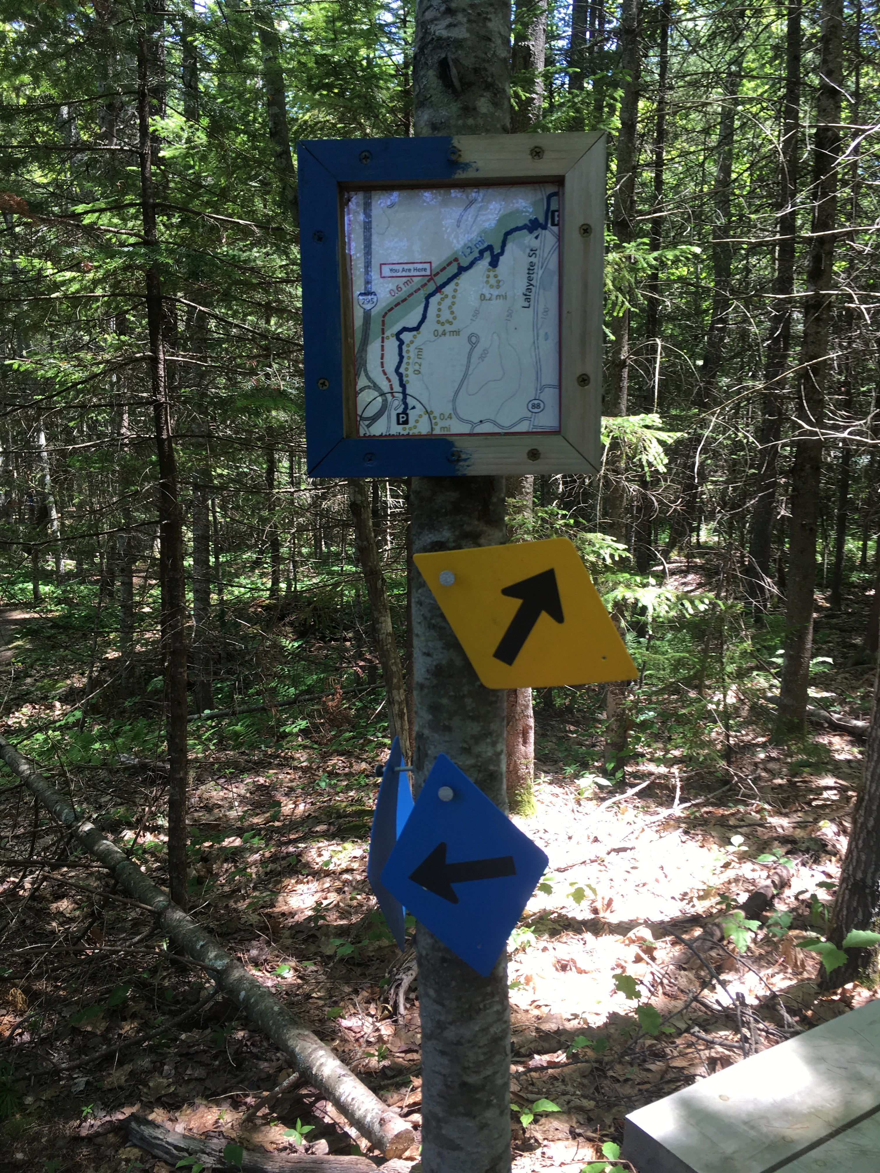 Signage on the West Side Trail, Yarmouth, Maine